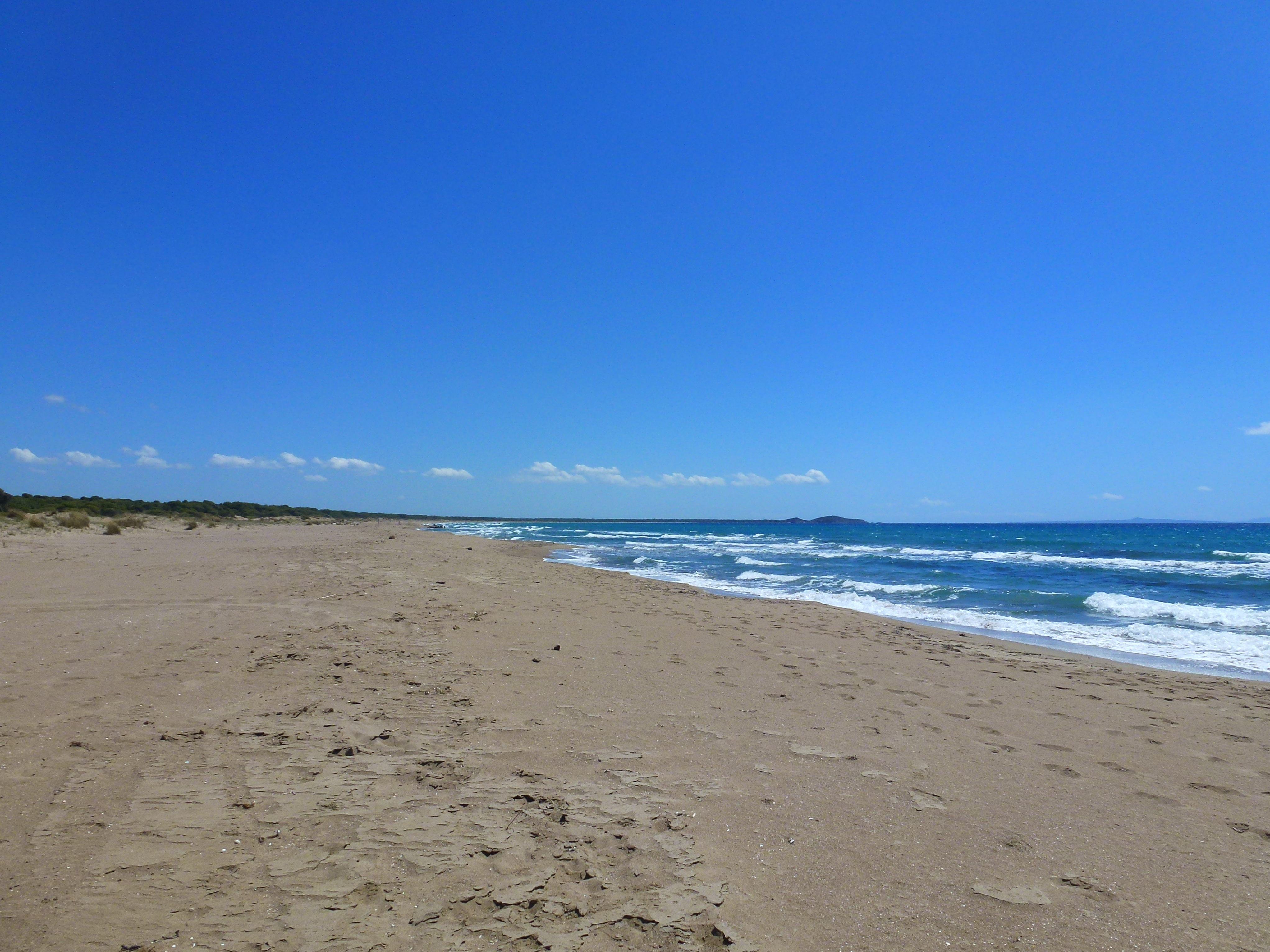 This is a photography of Natura 2000 protected area with ID GR2320001